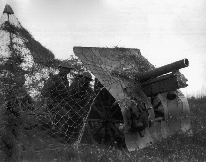 Bofors 75mm (probably Type 80) in China.